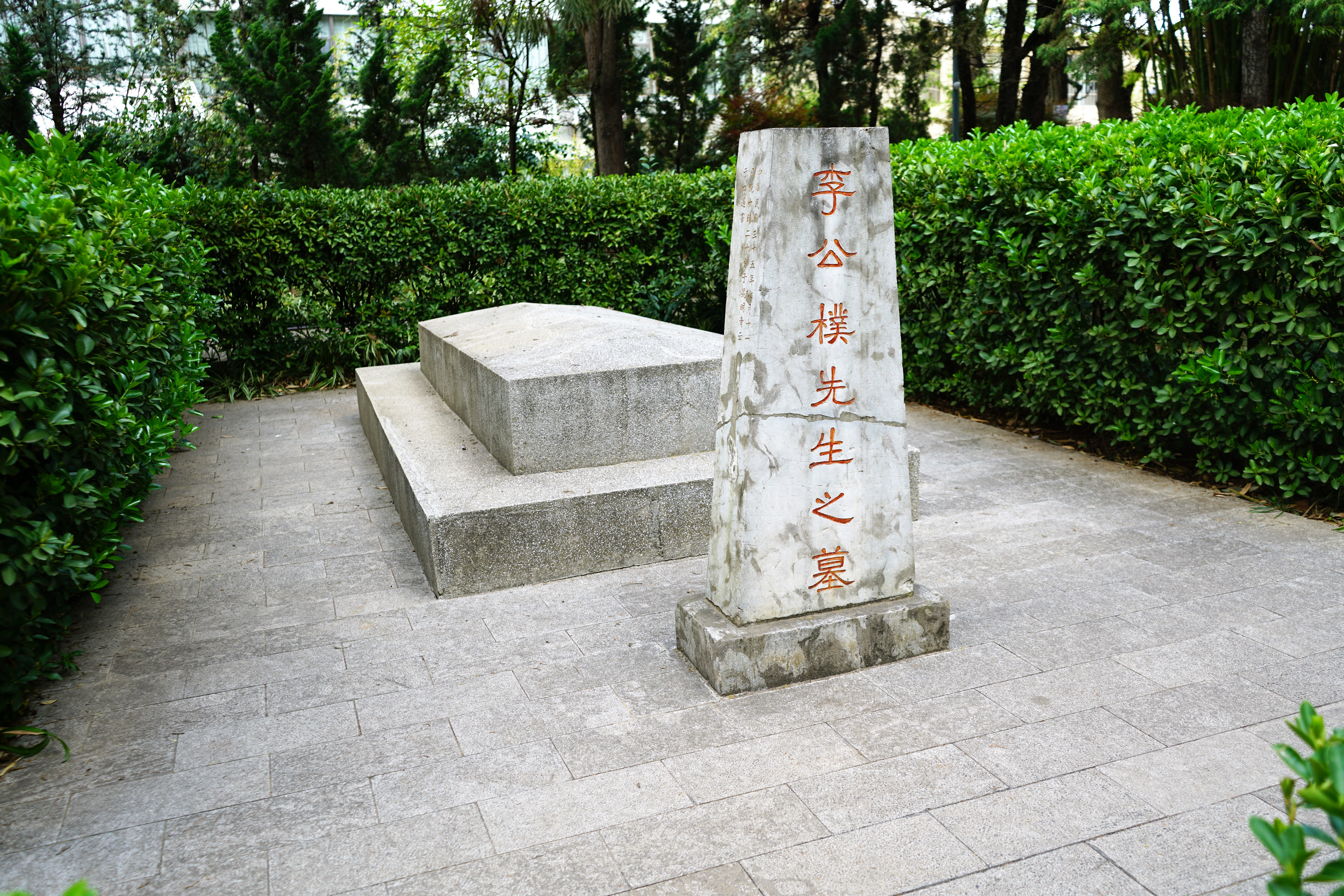 tomb of Li Gongpu